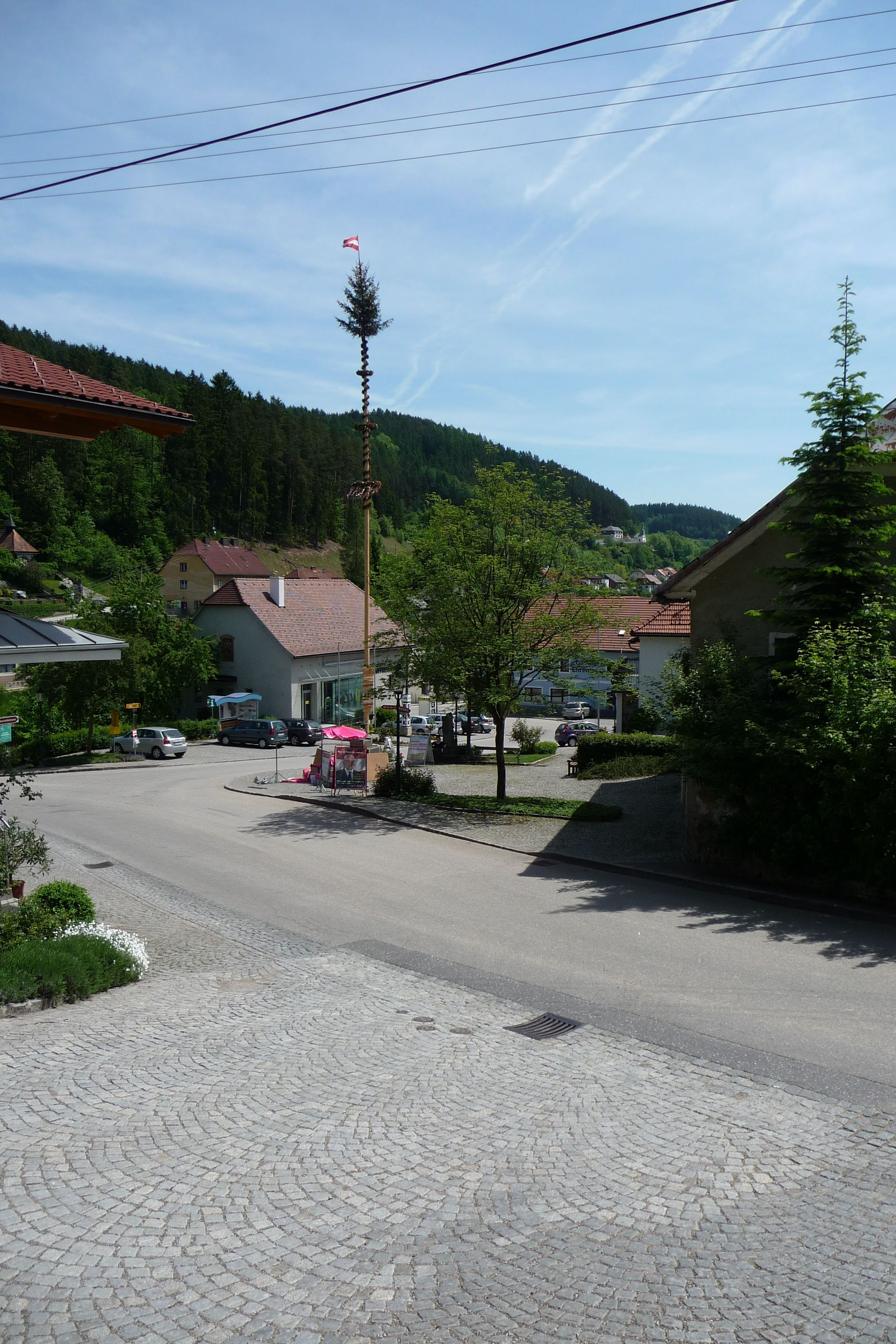 View of Hirschbach im Mühlkreis